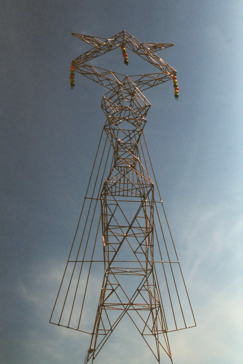 Models, landscape towers by Elena Paroucheva, 2004 Aesthetic of the energy network towers: Project for sculptures - multi support for power lines pylons, wind masts, antennas, lighting masts.